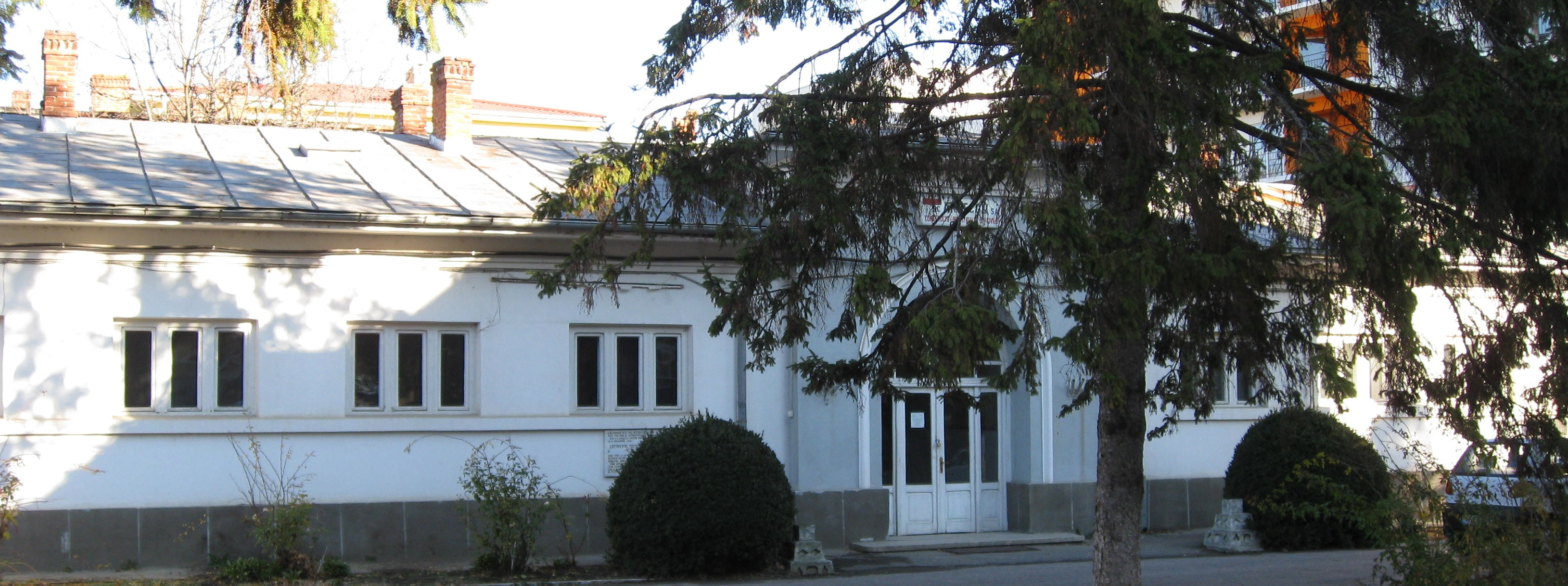 Entrance building to the Piteşti prison in Romania